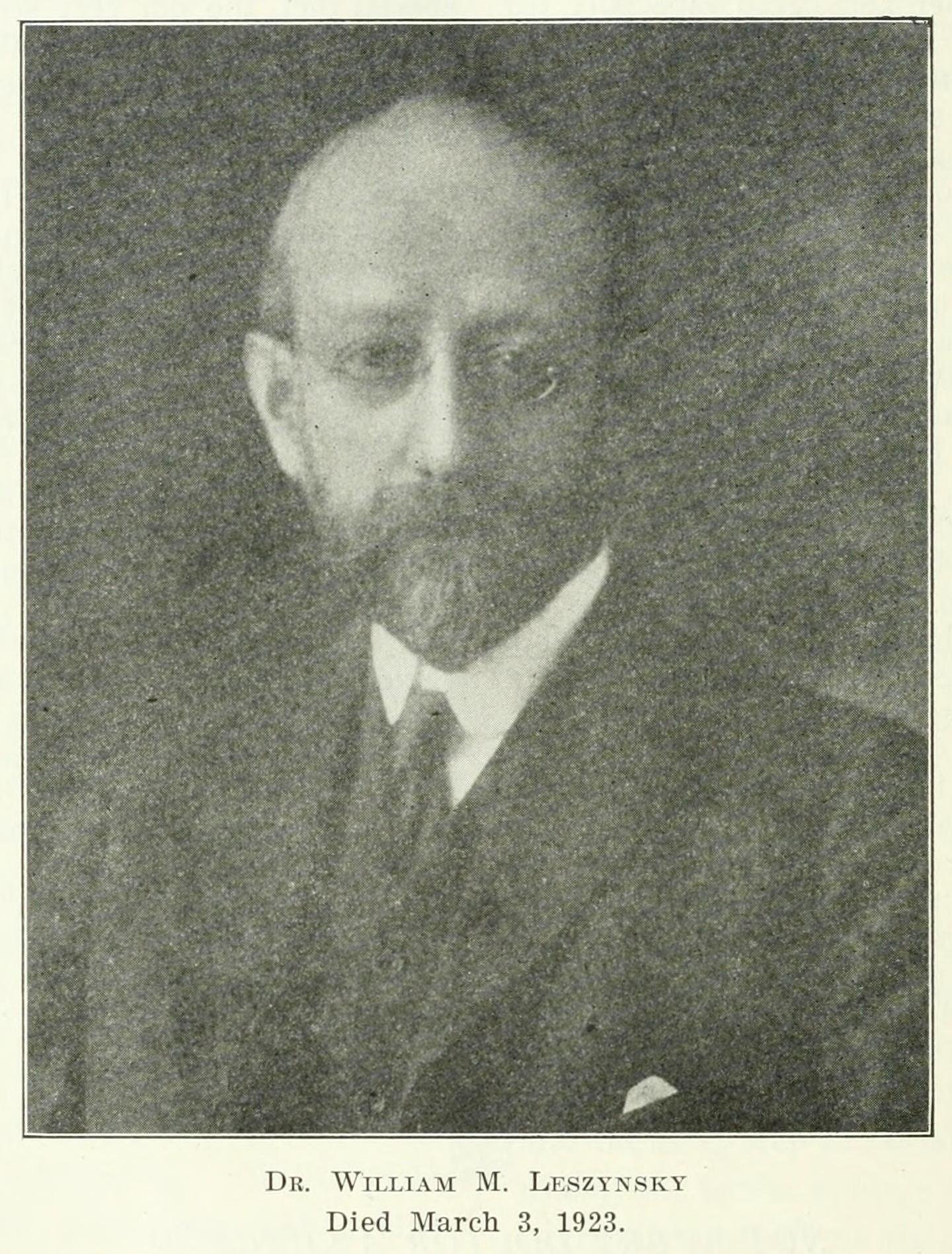 William Leszynsky (1859-1923)